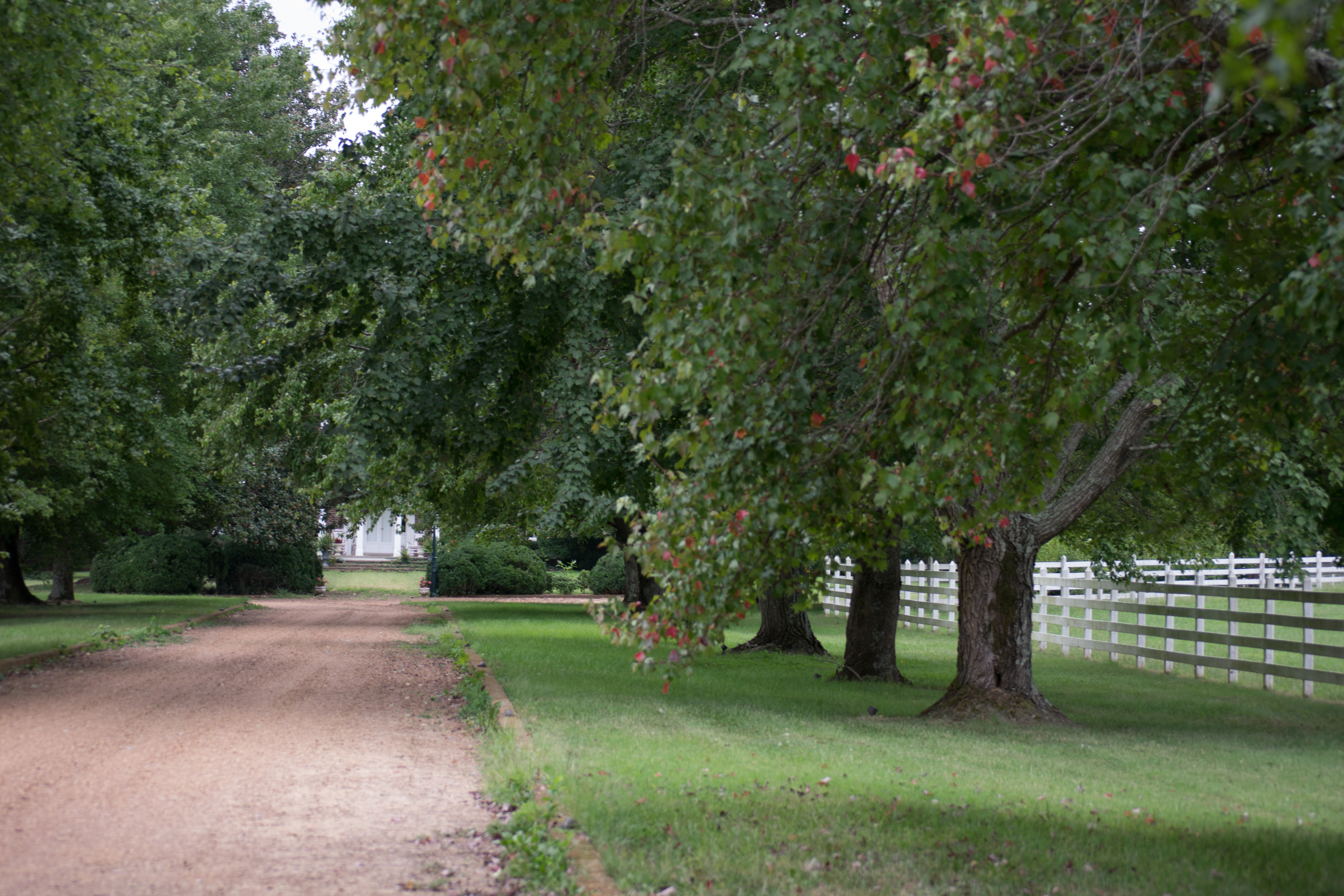 Driveway leading to home situated on historic plantation.